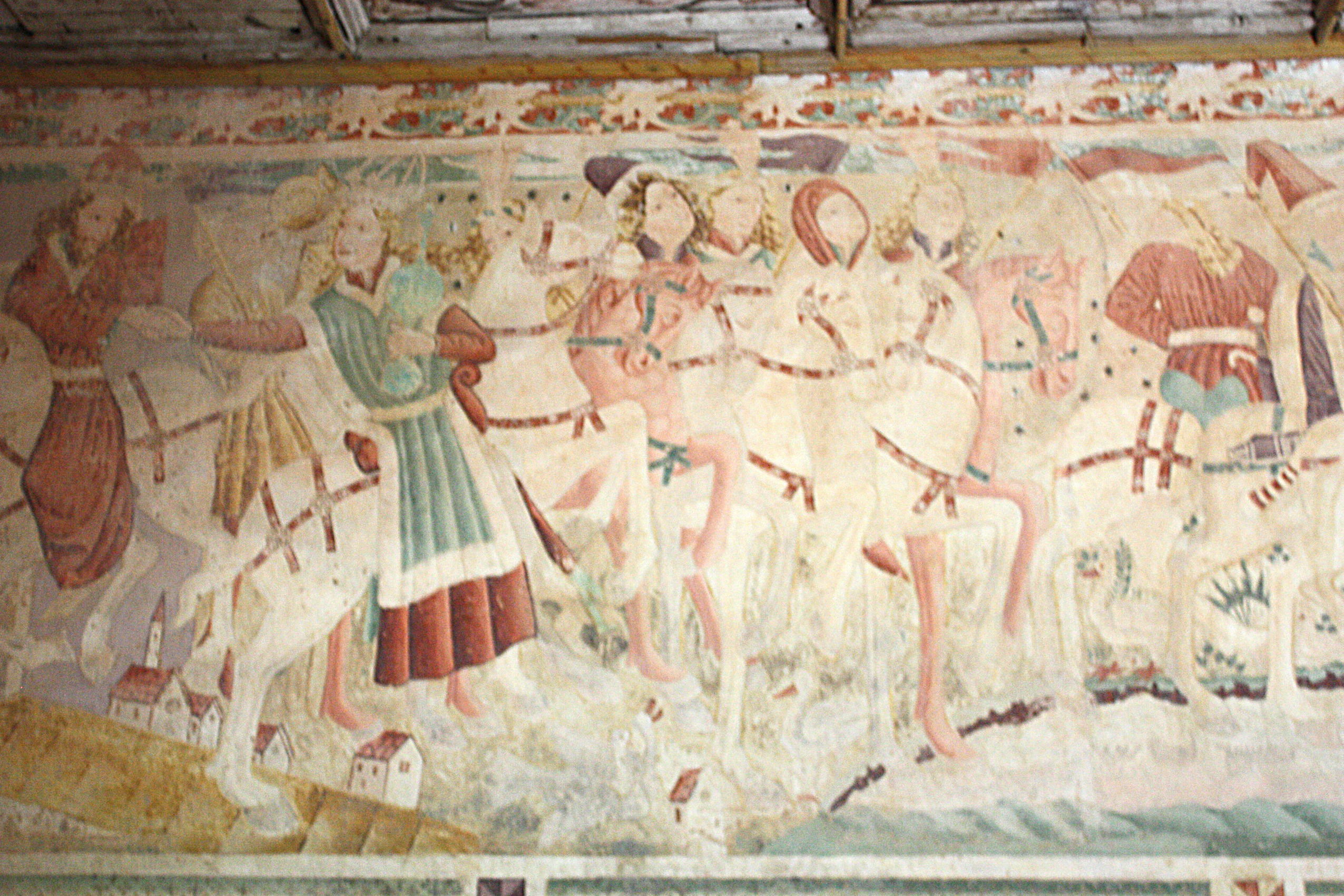 Beram, church Maria in rock, fresco